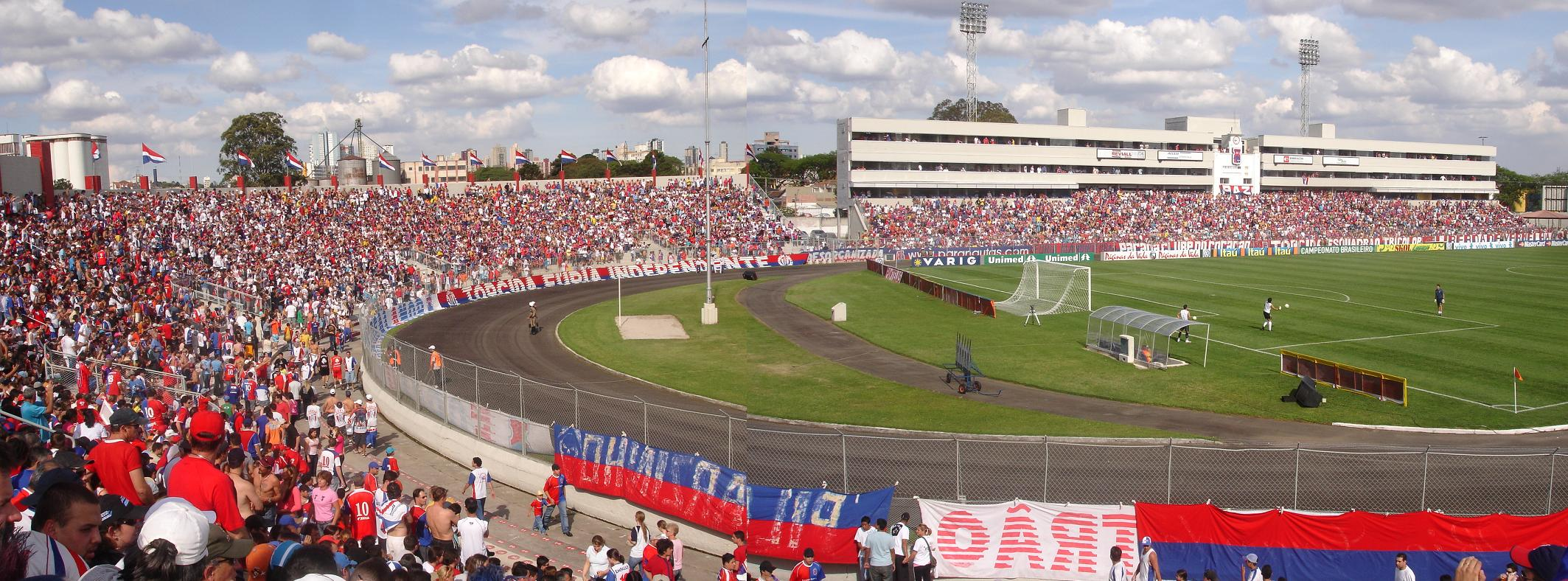 Estádio Vila Capanema (officialy Estádio Durival Britto e Silva), home stadium of Paraná Clube, in Curitiba, Brazil.